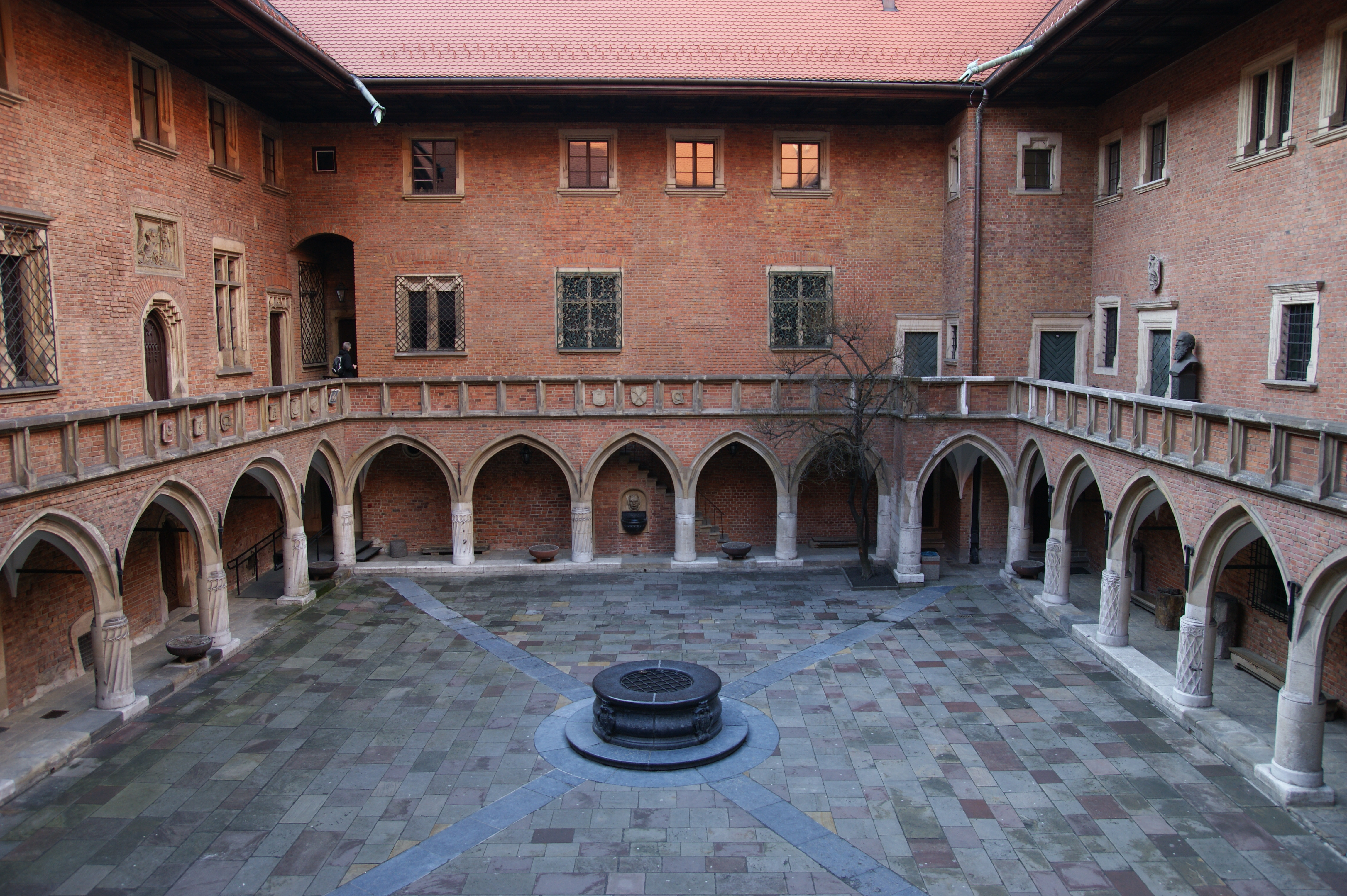 Collegium maius, Krakow English | Polski | +/−